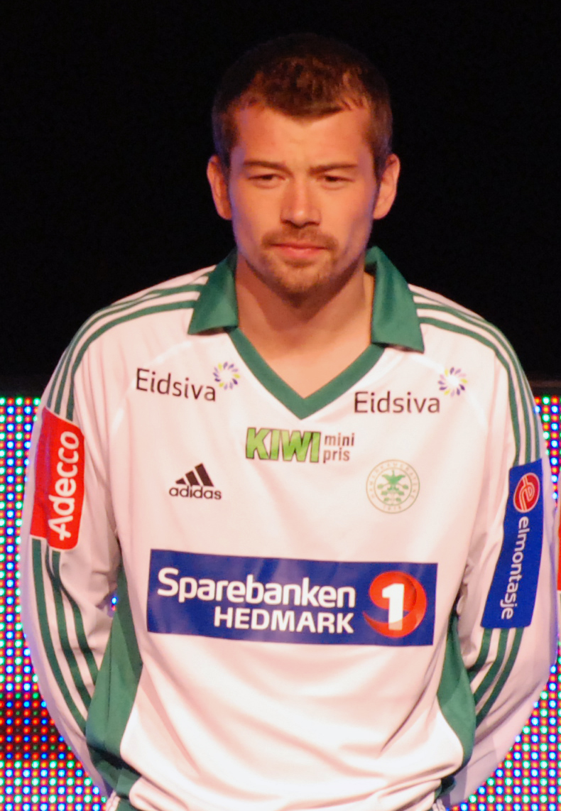 Olav Råstad of HamKam, 2009 season kick off.